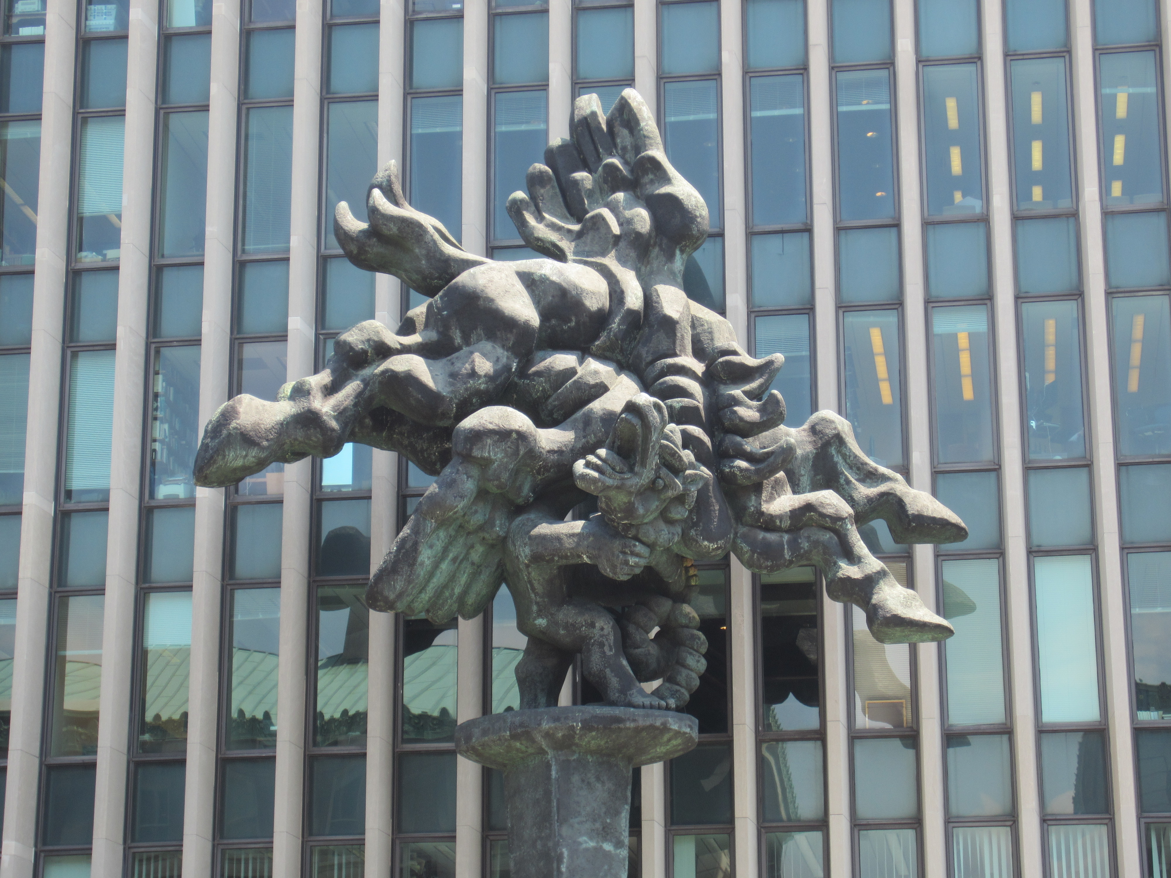 Columbia University, New York City (June 2014)